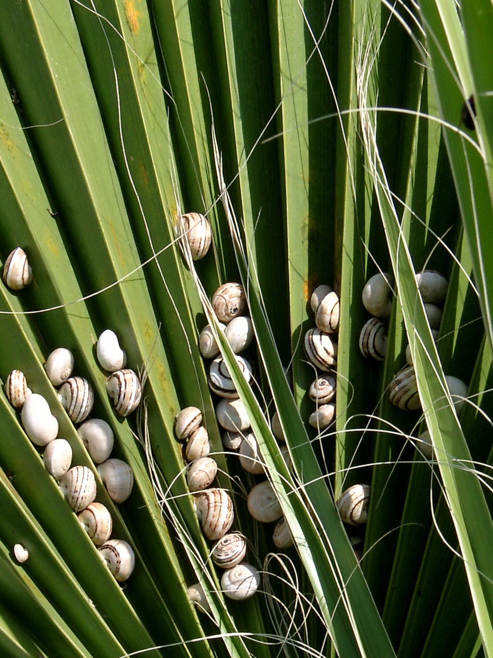 Snails in Cyprus